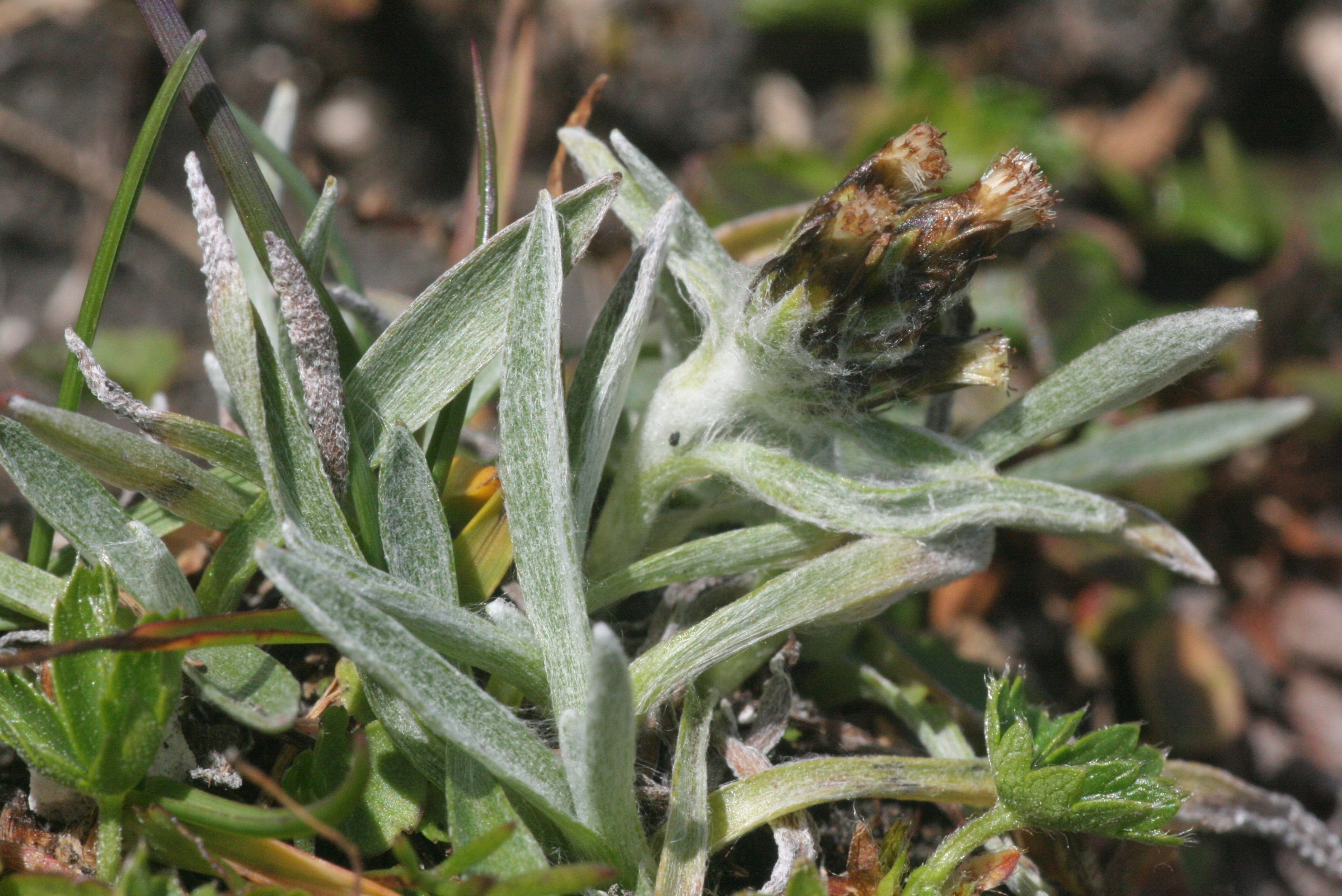 Gnaphalium hoppeanum